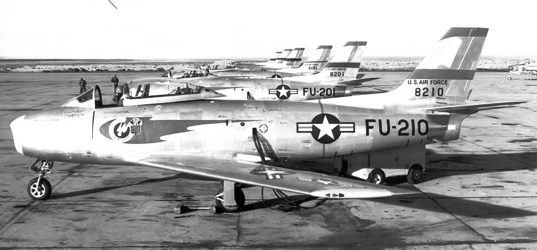 71st Fighter-Interceptor Squadron North American F-86A Sabres 1st Fighter Group, George AFB, California 1950 Aircraft identified: North American F-86A-5-NA Sabre 48-210 North American F-86A-5-NA Sabre 48-201 North American F-86A-5-NA Sabre 48-151 North American F-86A-5-NA Sabre 48-214